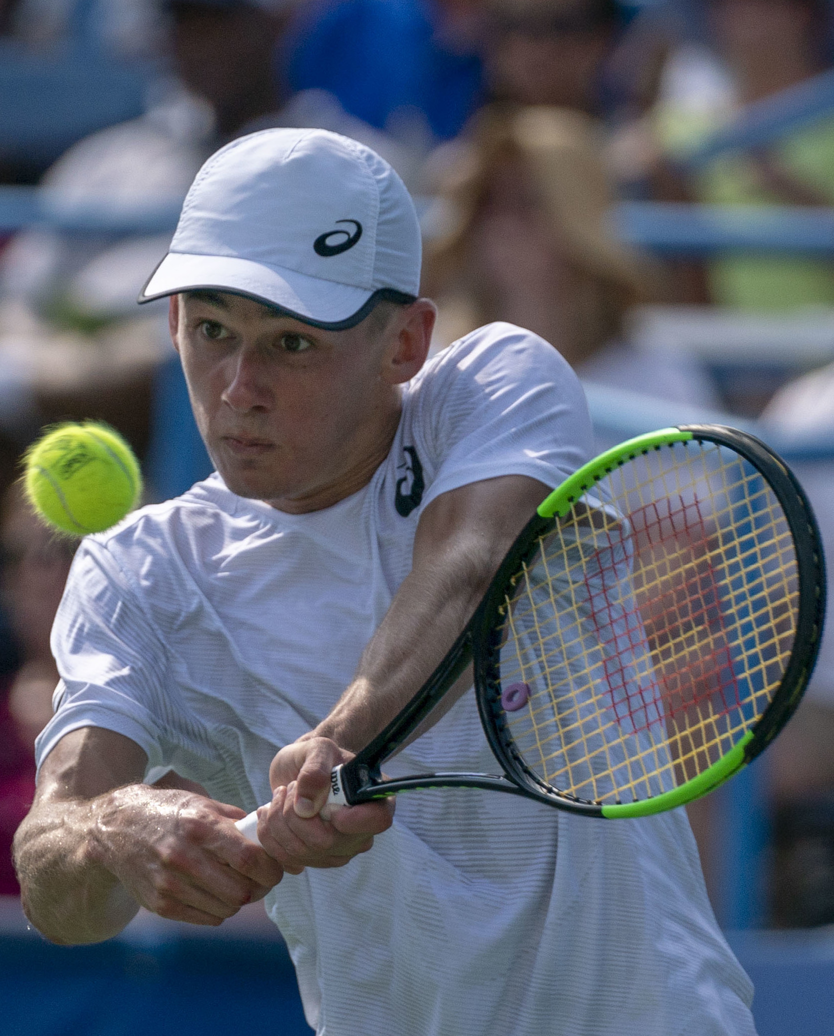 2018 Citi Open Tennis Finals